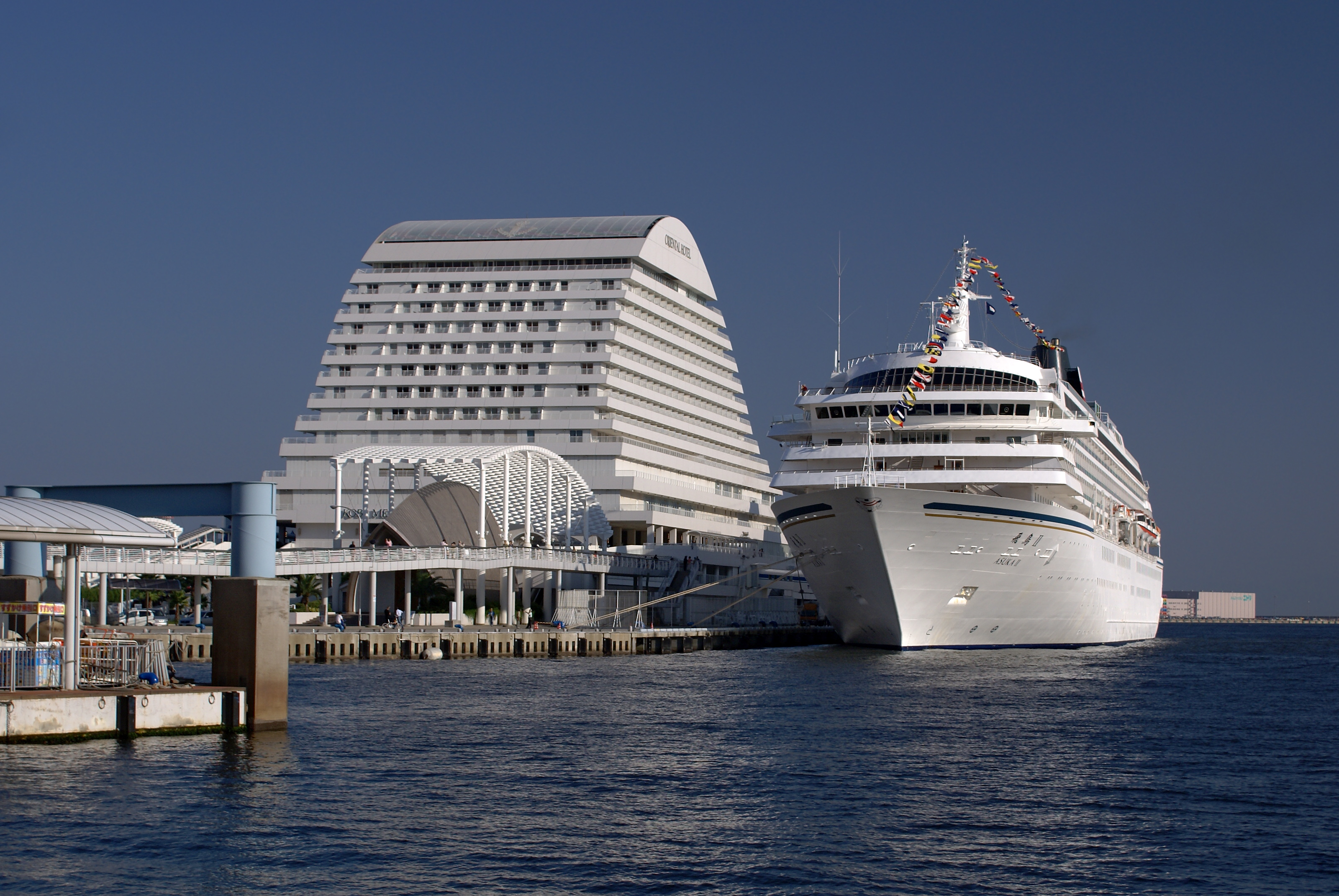 "Asuka II" who anchors at the wharf "Nakatottei" of the Kobe harbor (Kobe, Hyogo prefecture, Japan)